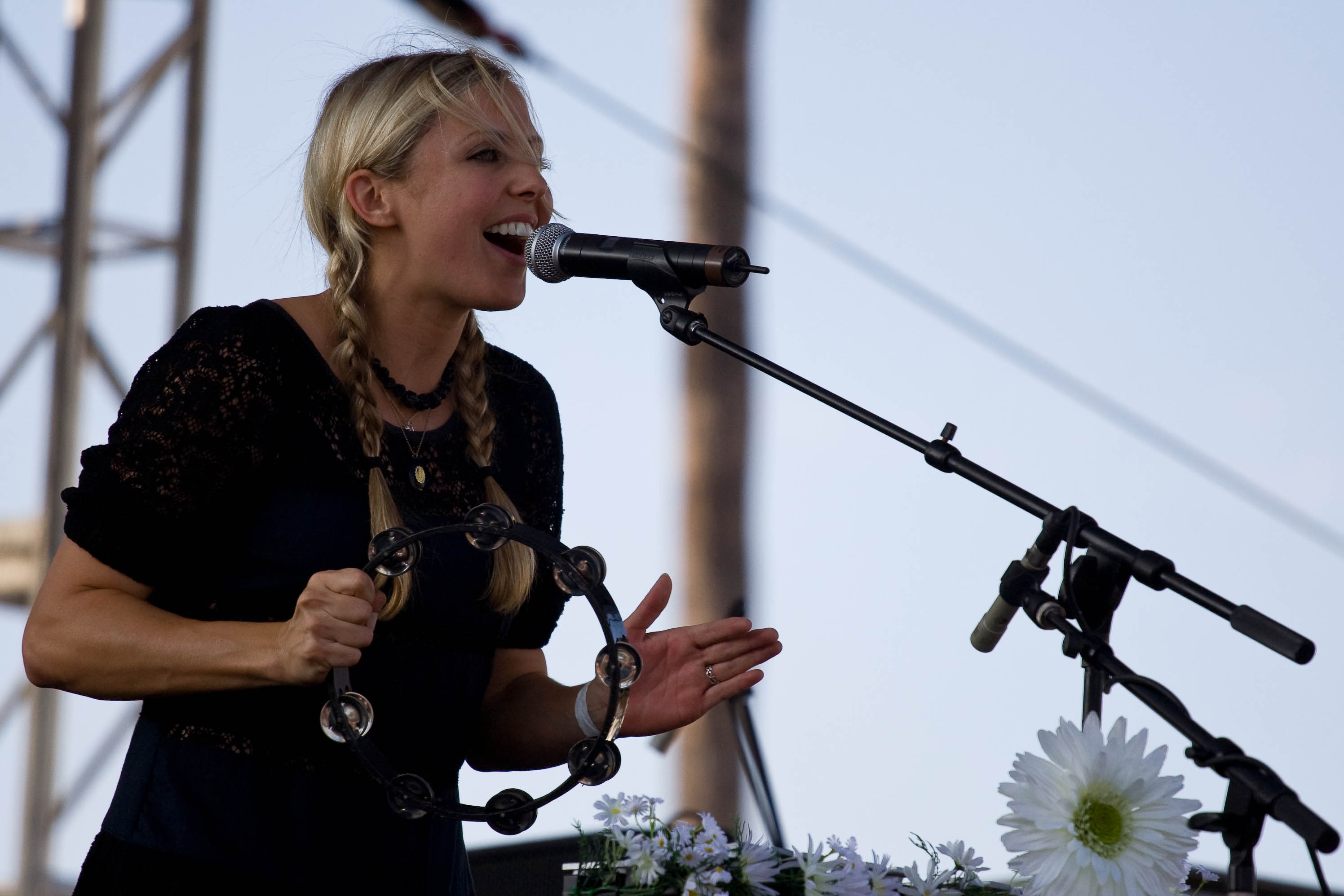 The Submarines performing at Sunset Junction in Los Angeles on August 22, 2009